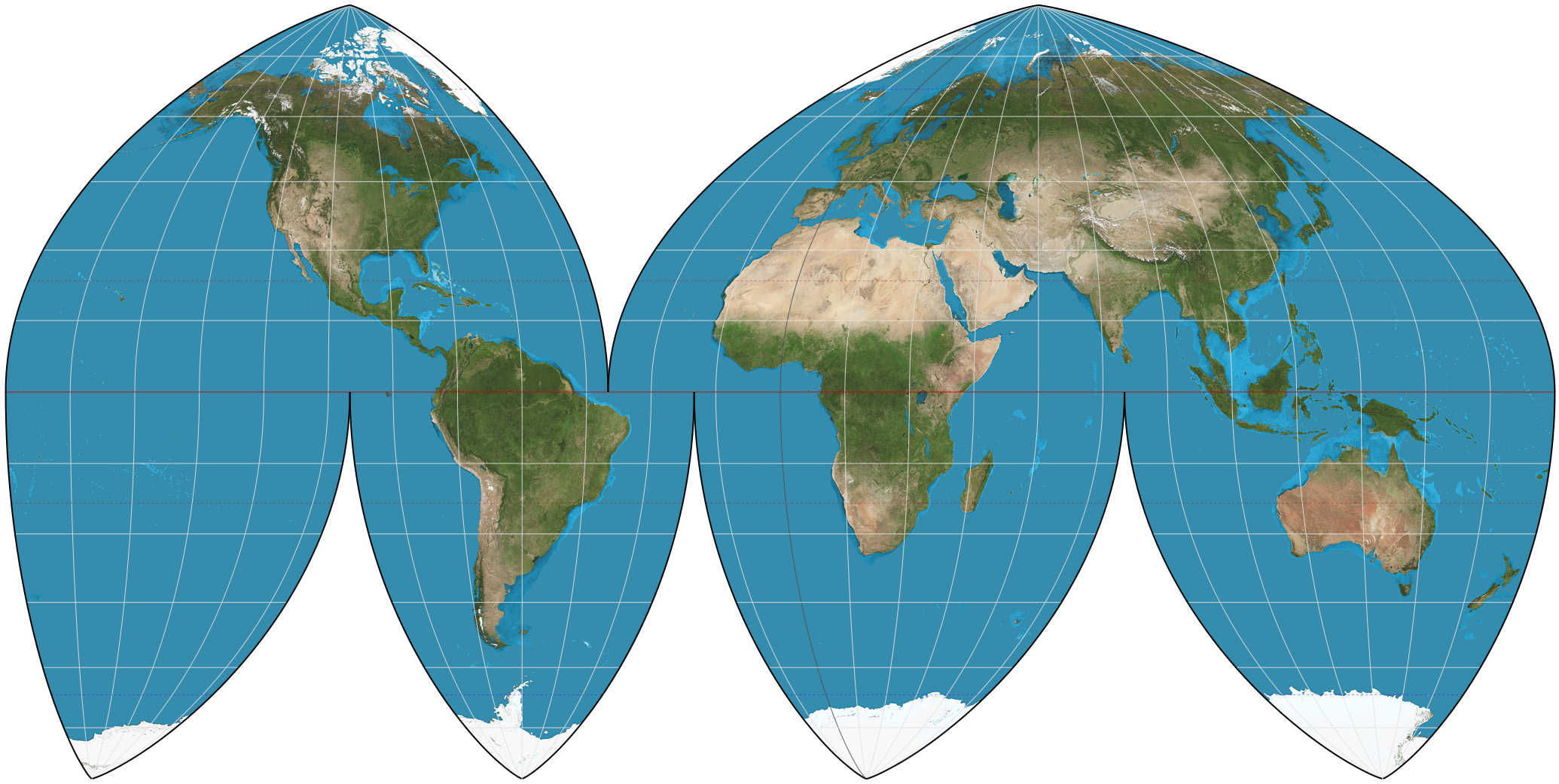 The world on the Boggs eumorphic projection. 15° graticule. Imagery is a derivative of NASA’s Blue Marble summer month composite with oceans lightened to enhance legibility and contrast. Image created with the Geocart map projection software.